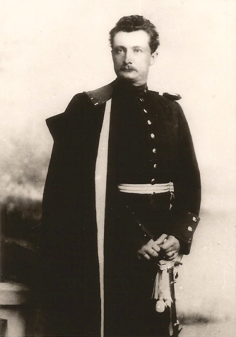 Parlow during his time in the merchant navy of Prussia.